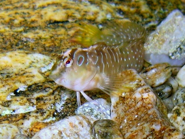 Female Salaria pavo photographed in Sardinia, Italy